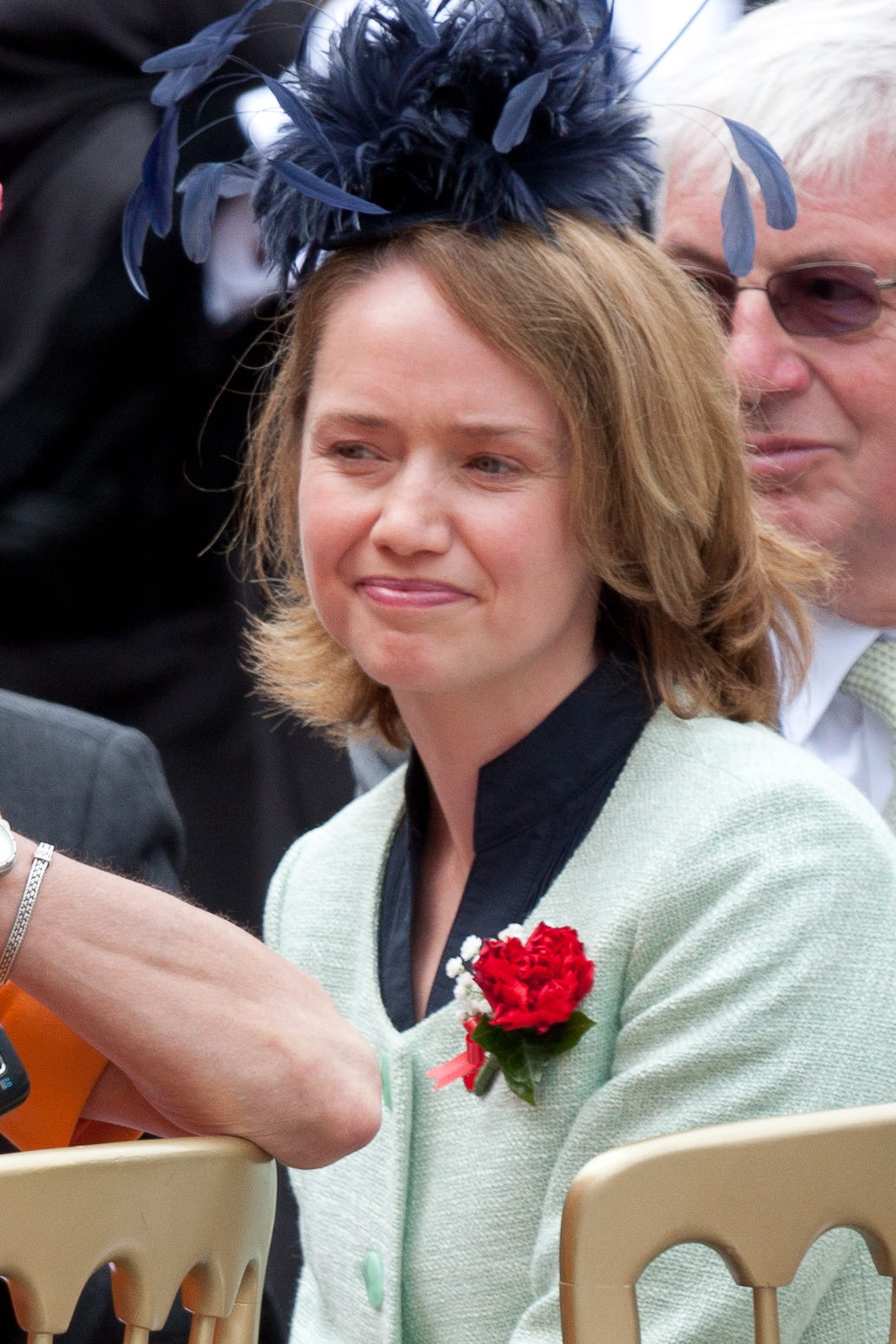 Deputy Kristina Moore.